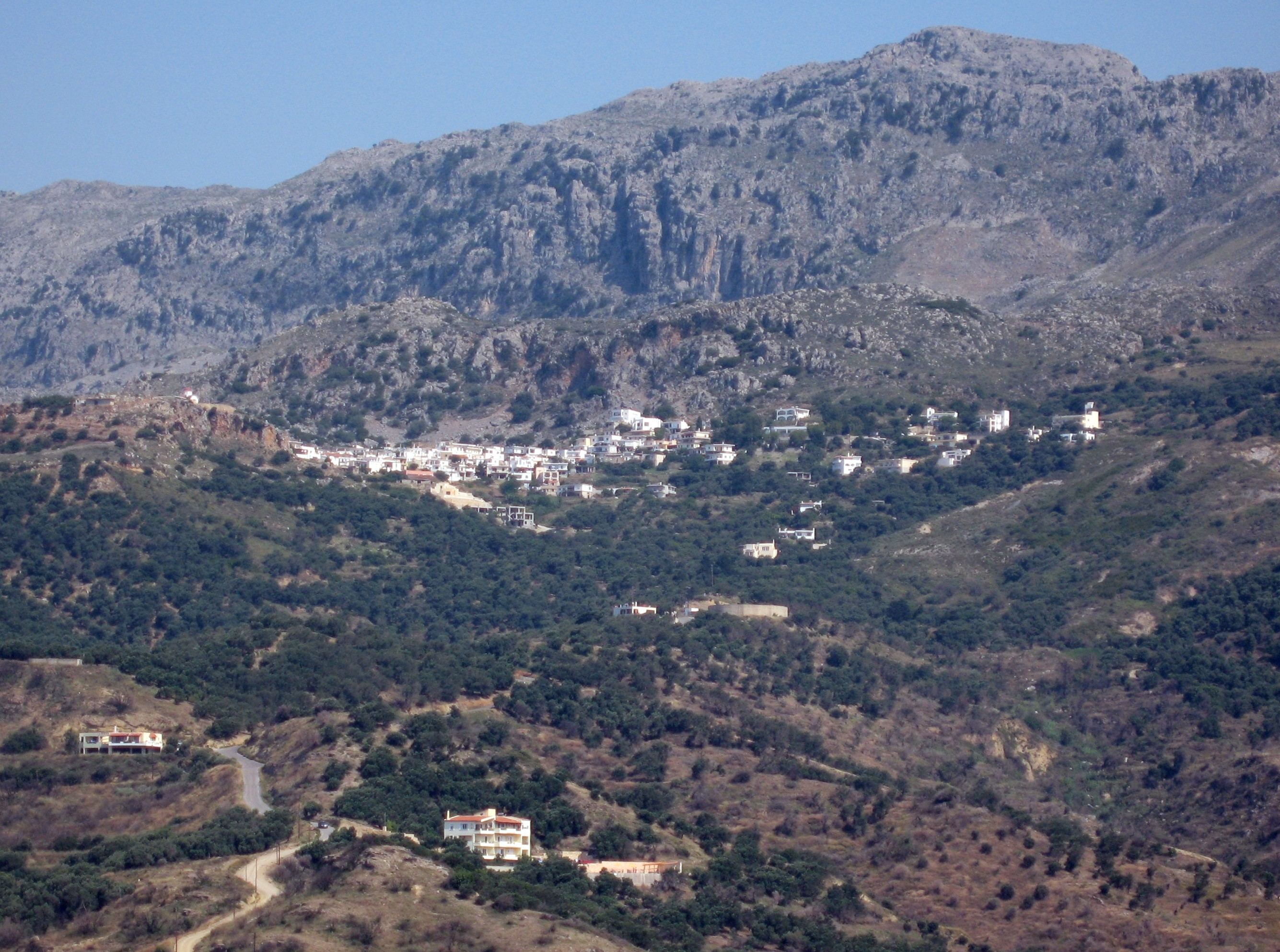 Sellia, Dimos Finikas, Nomos Rethymno, Crete, Greece